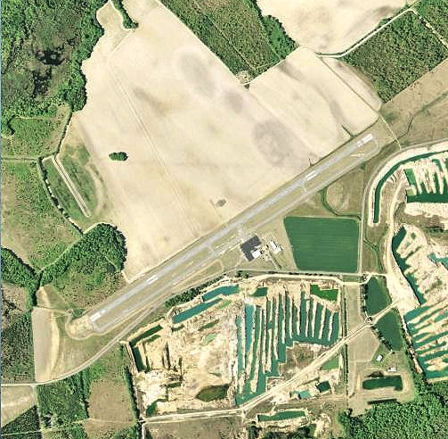 USGS digital orthophoto of Marlboro County Jetport in South Carolina